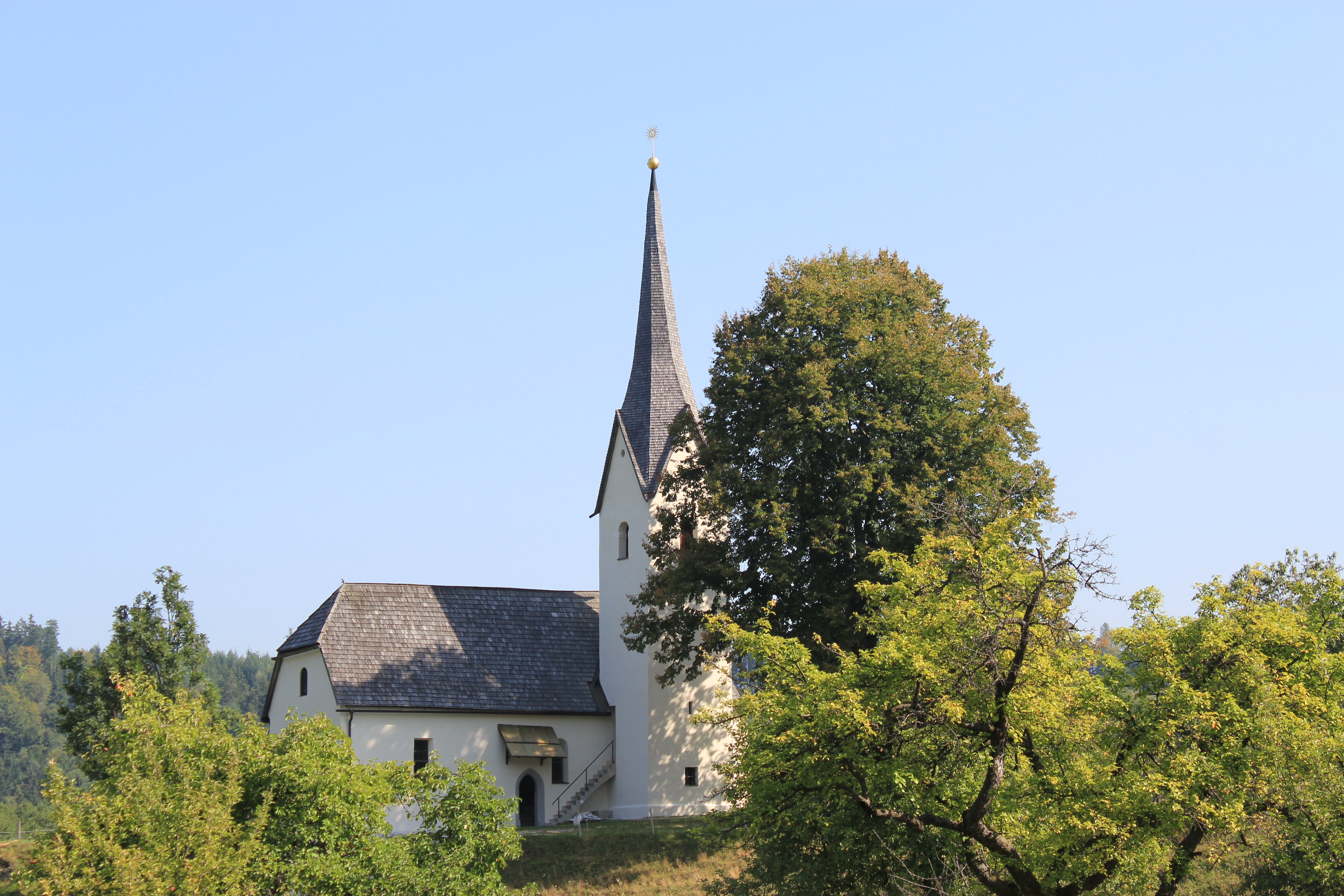 Church of St Georgen in the community of Bleiburg